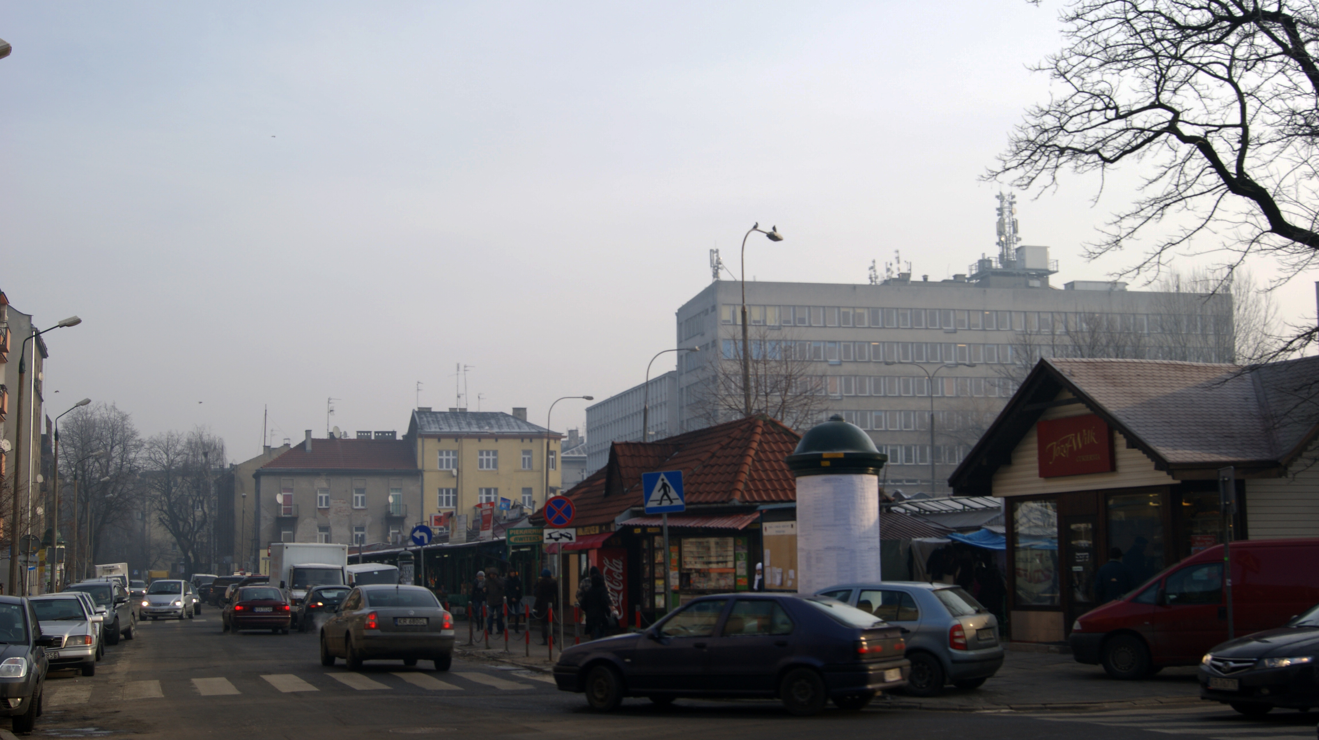 Na Stawach square,Krakow,Poland